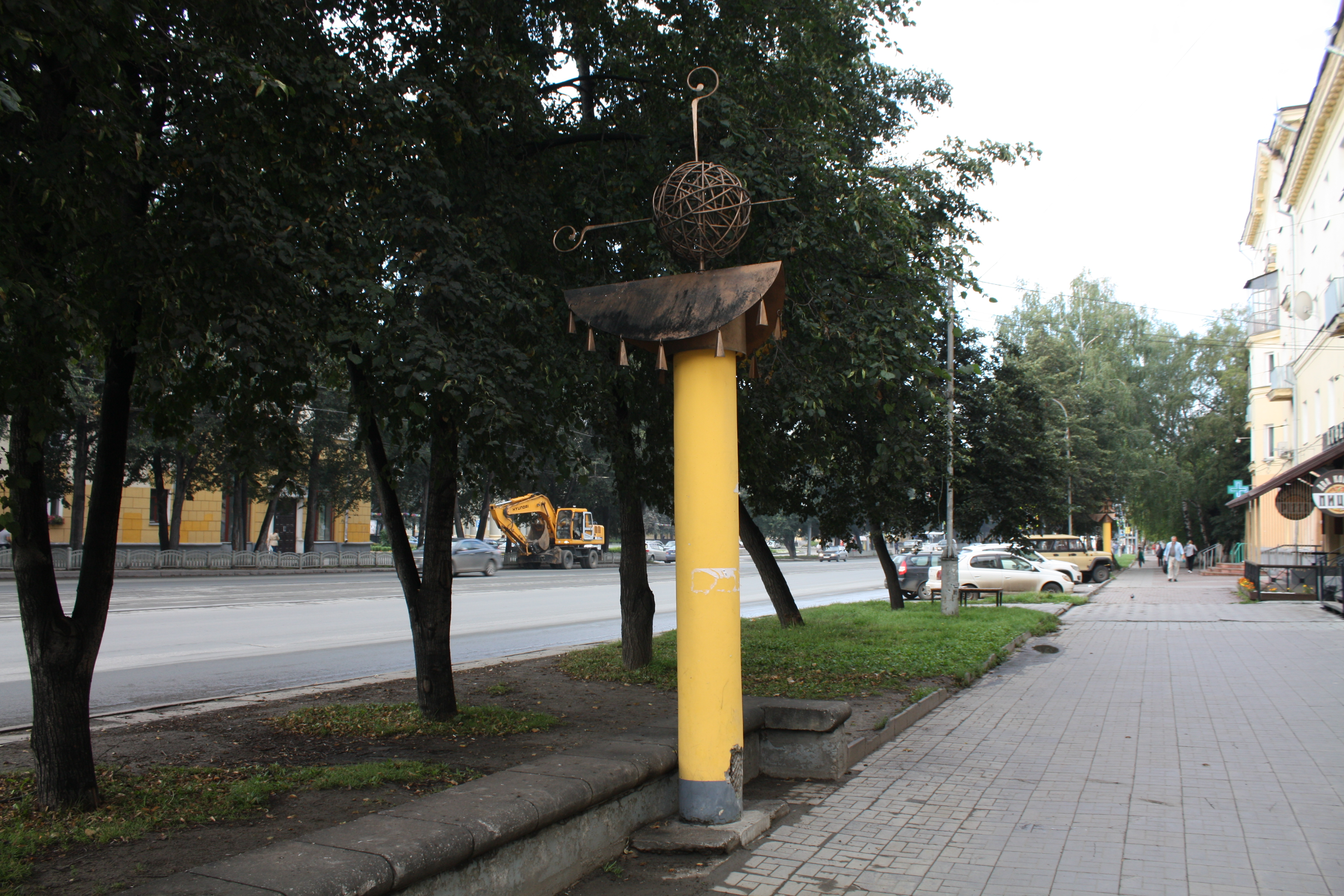 Bohdan Khmelnytsky Street, Kalininsky City District, Novosibirsk.